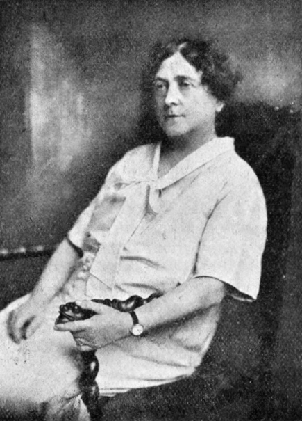 Růžena Jesenská (1863–1940) was a Czech teacher, poet and writer.